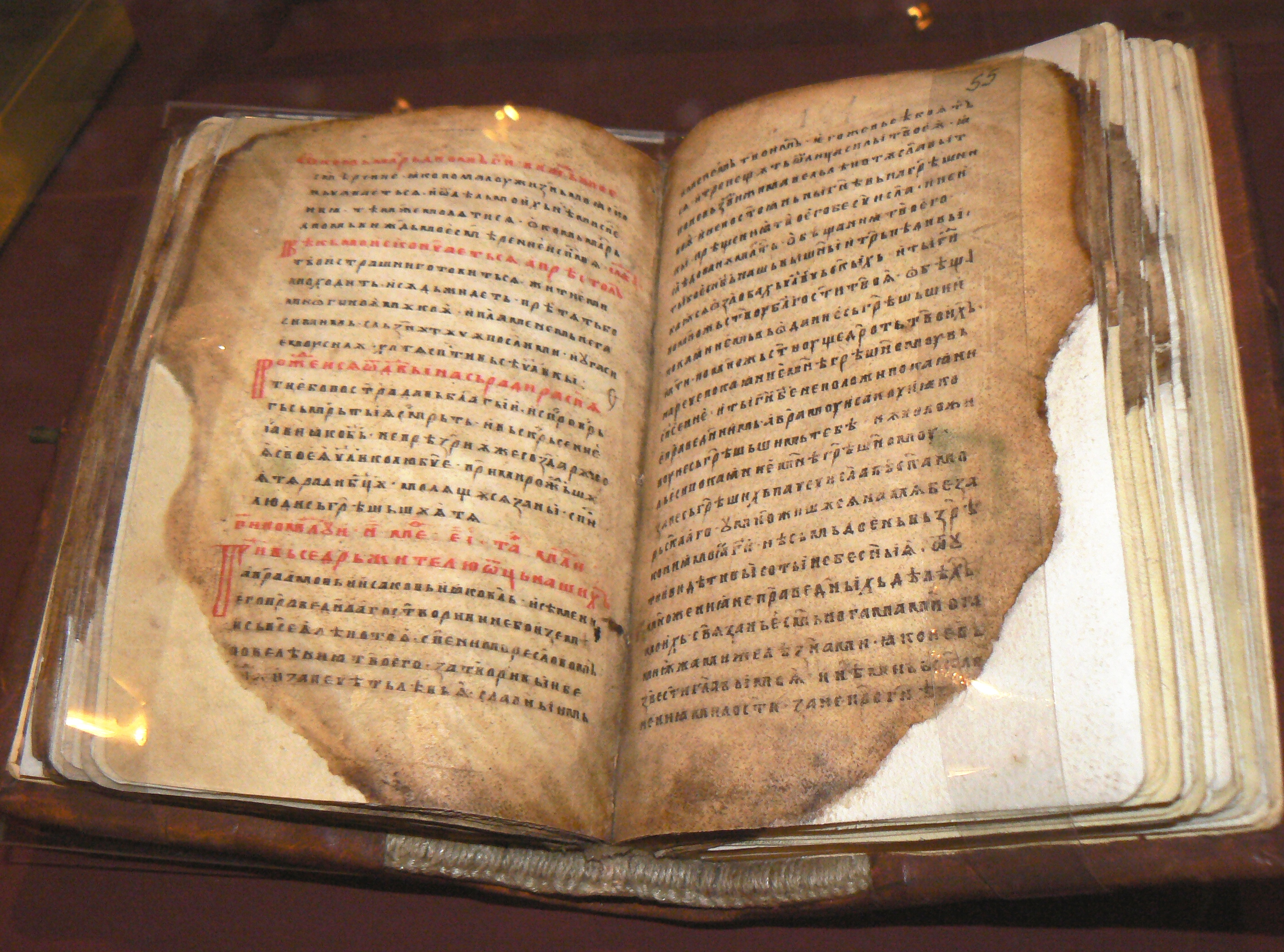 Boyana Psalter of 13 century AD. Exhibit of the National History Museum of Bulgaria, property of Boyana Church.